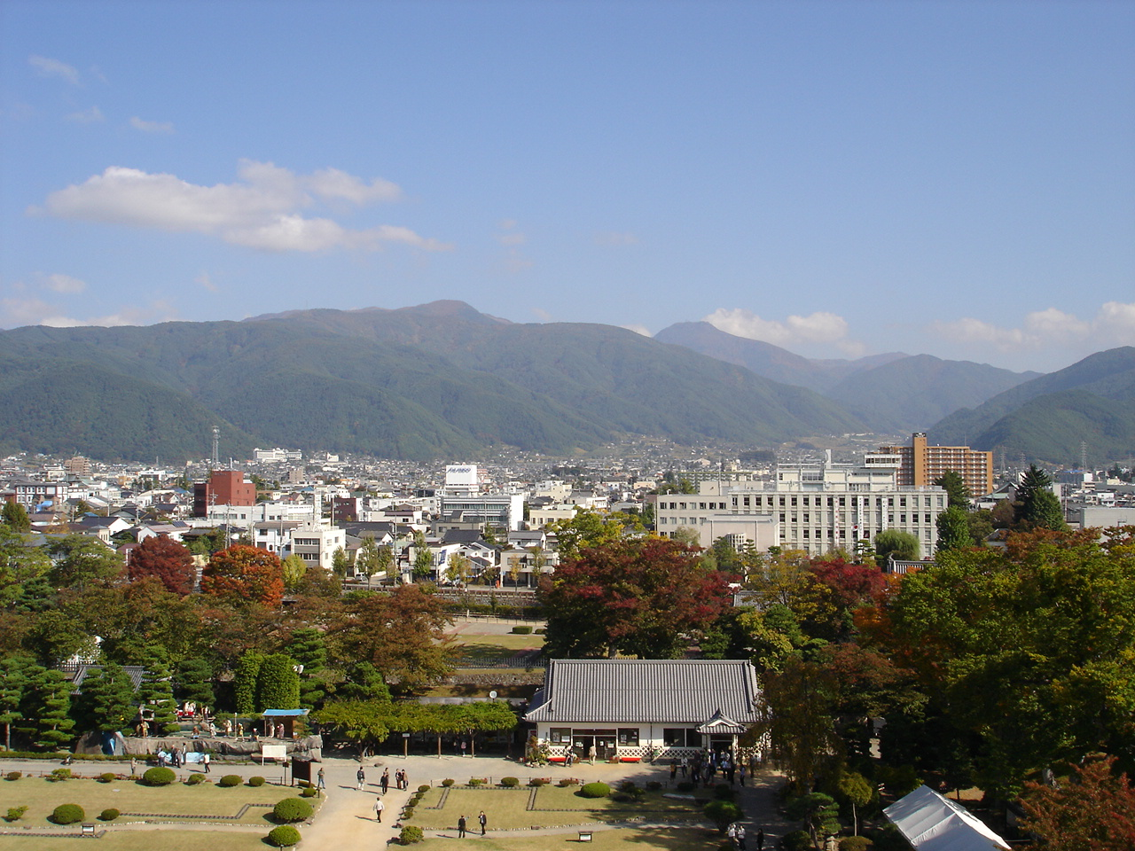 The city of Matsumoto, Japan, seen from the top of the castle